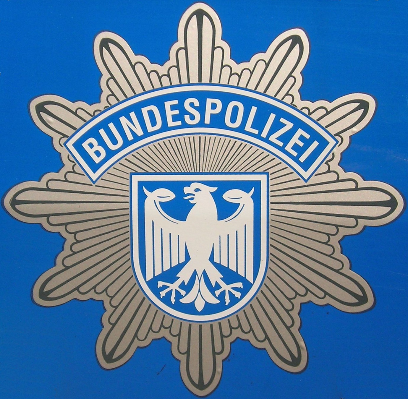 see above